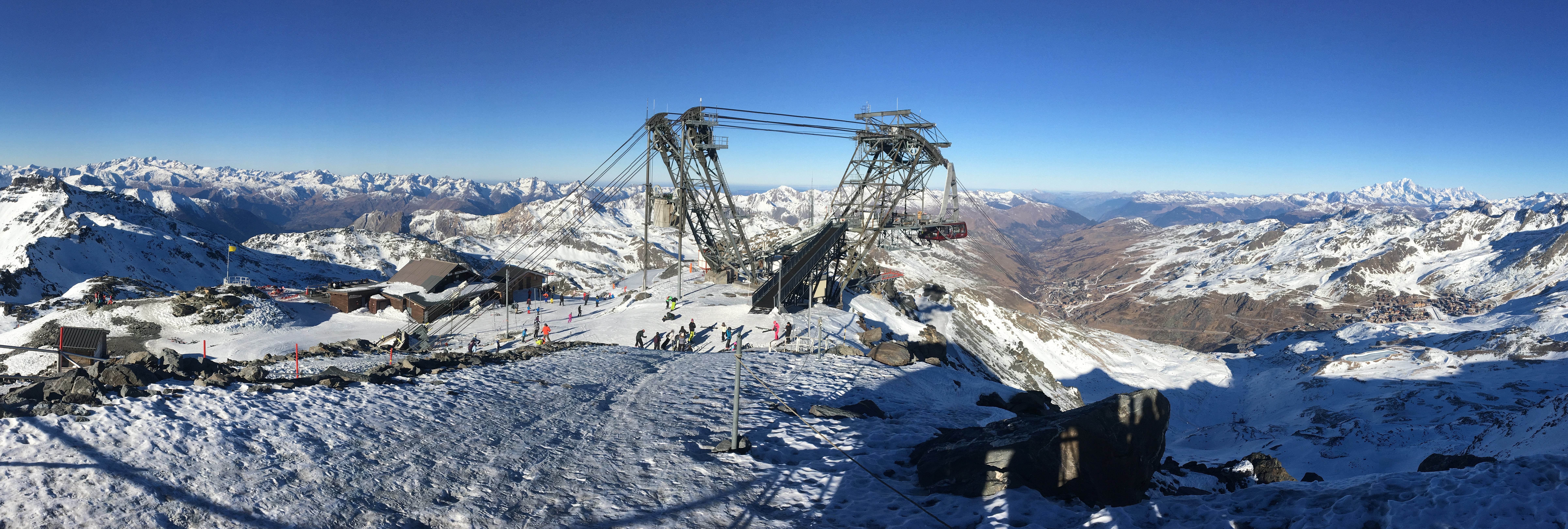 Cime Caron cable car summit of 2320m at Val Thorens ski area, France.